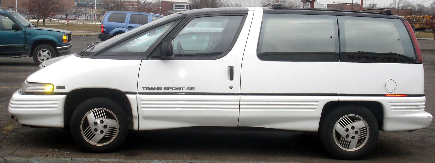 1991 Pontiac Trans Sport